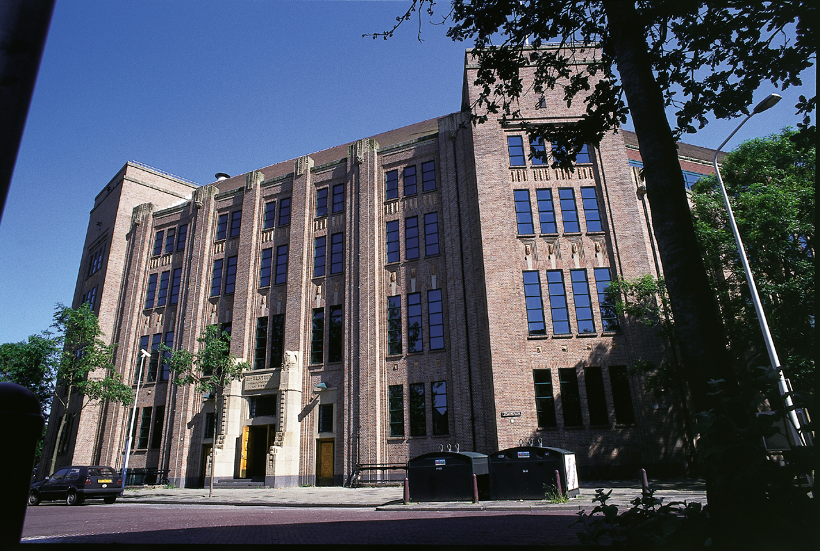 Regional office of Ziggo at the Spaarneplein 2, The Hague